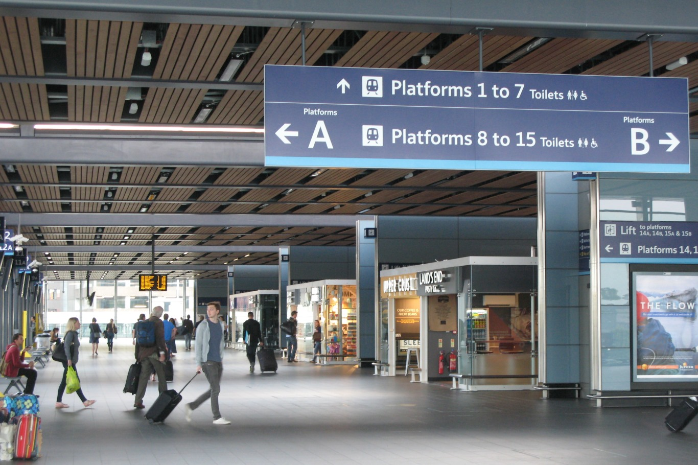 Shops were erected on the new, wide footbridge at Reading railway station in 2014.